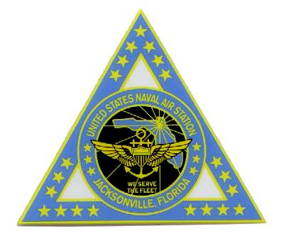 Naval Air Station Jacksonville Logo